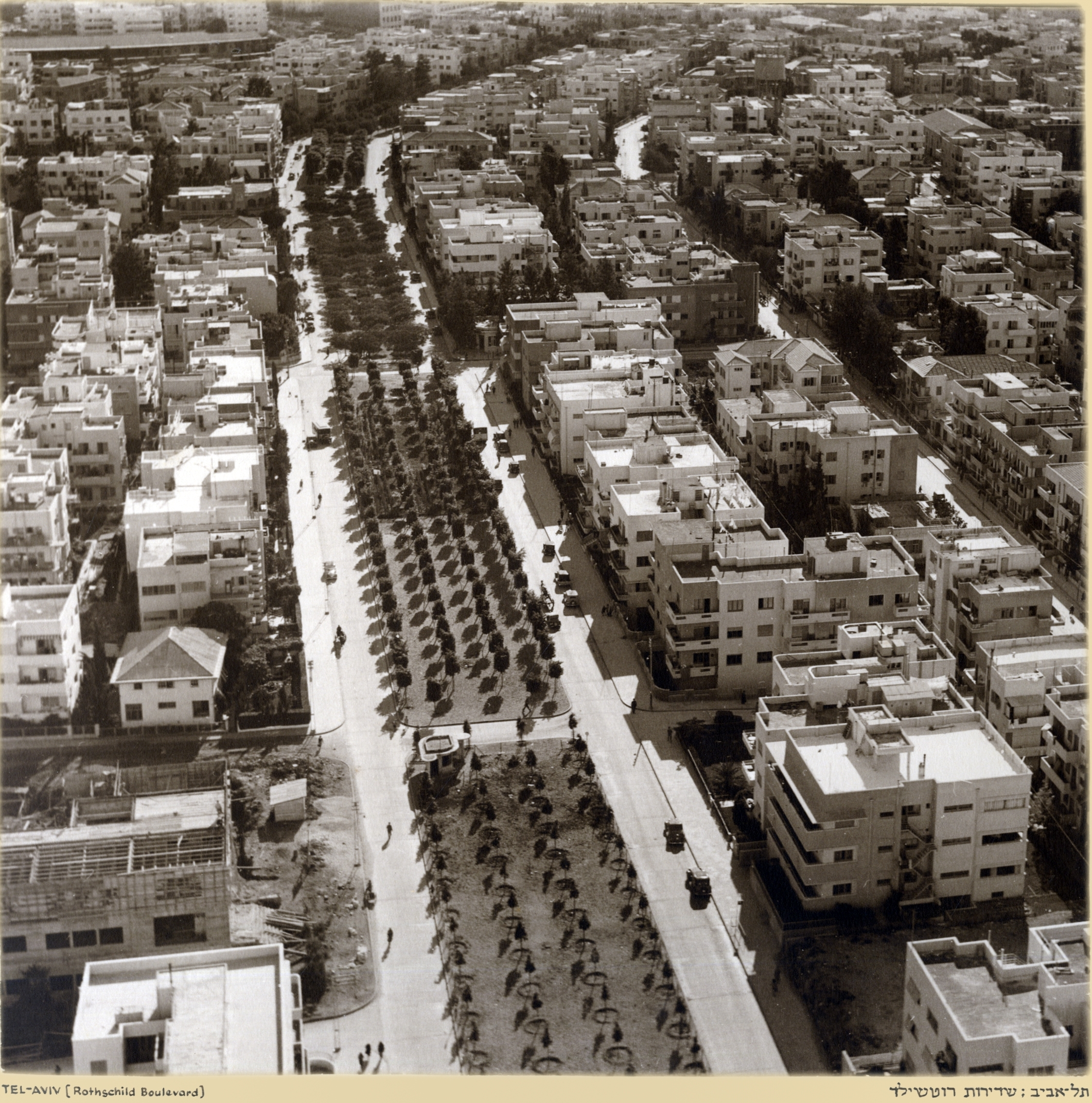 Z. Kluger. Erez Israel from the air - 1937-38